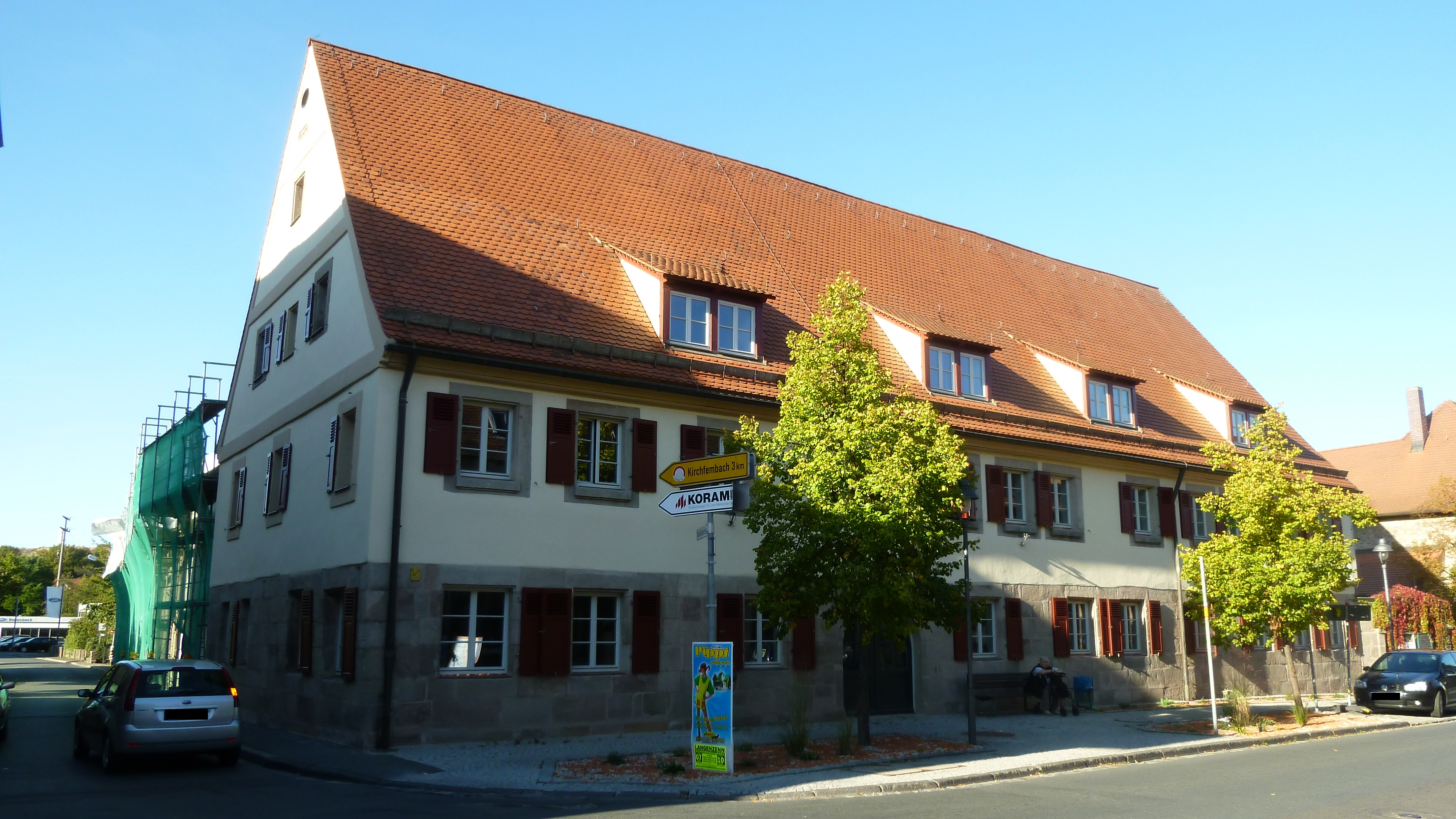 This is a photograph of an architectural monument.